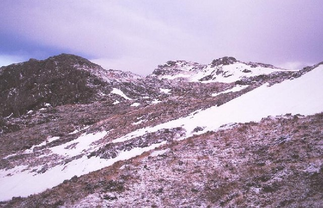 Sgurr a'Gharaidh. Very rugged peak above Lochcarron